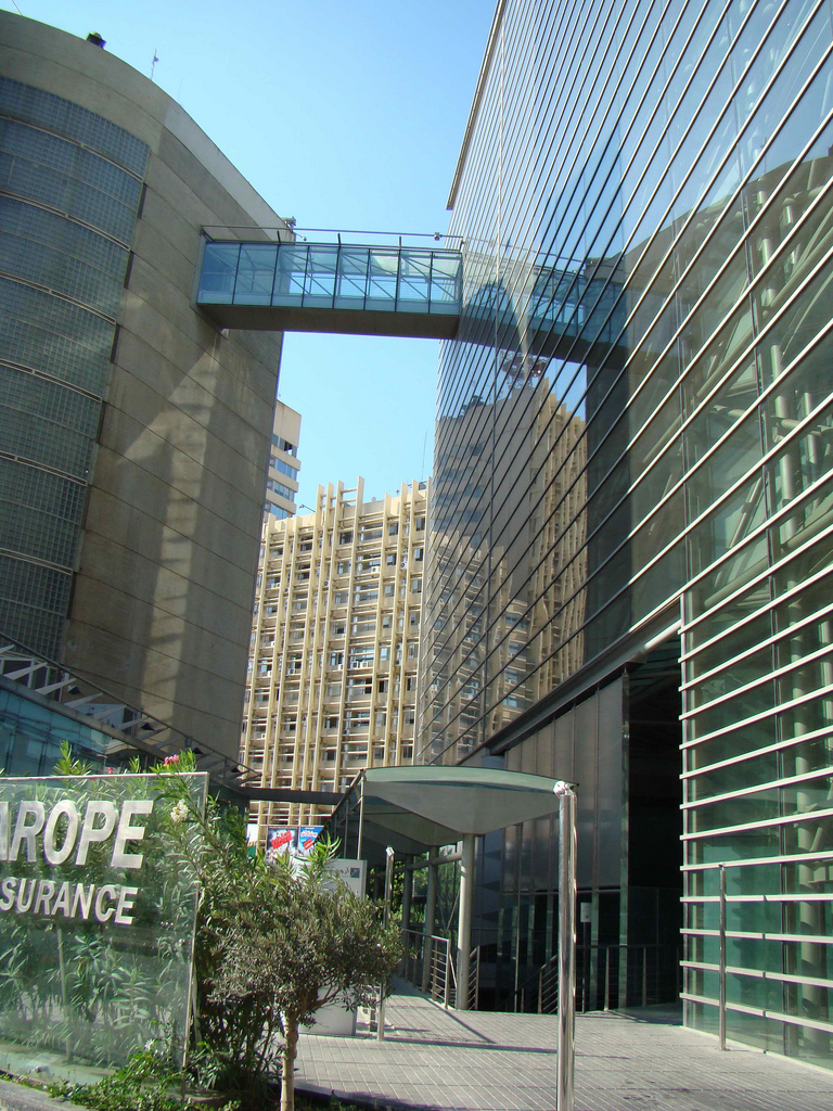 Offices in Beirut